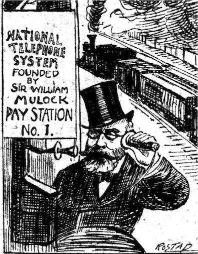 Cartoon of Sir William Mulock talking on national telephone